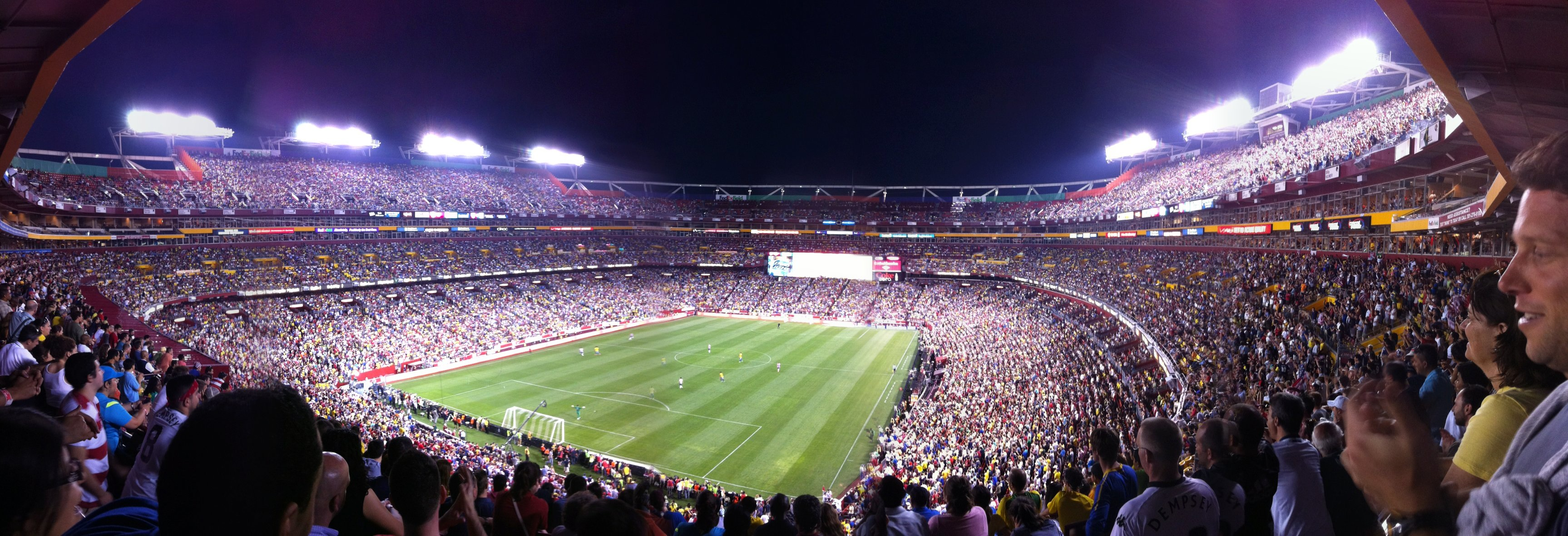 USA vs. Brazil International Friendly - May 30, 2012